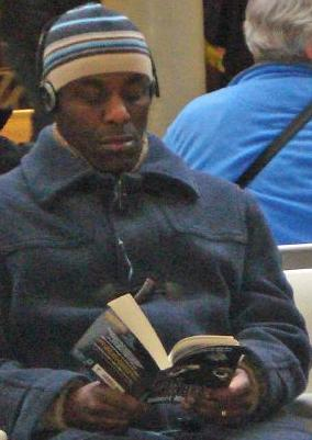 Actor Paterson Joseph waiting at at St Pancras International.